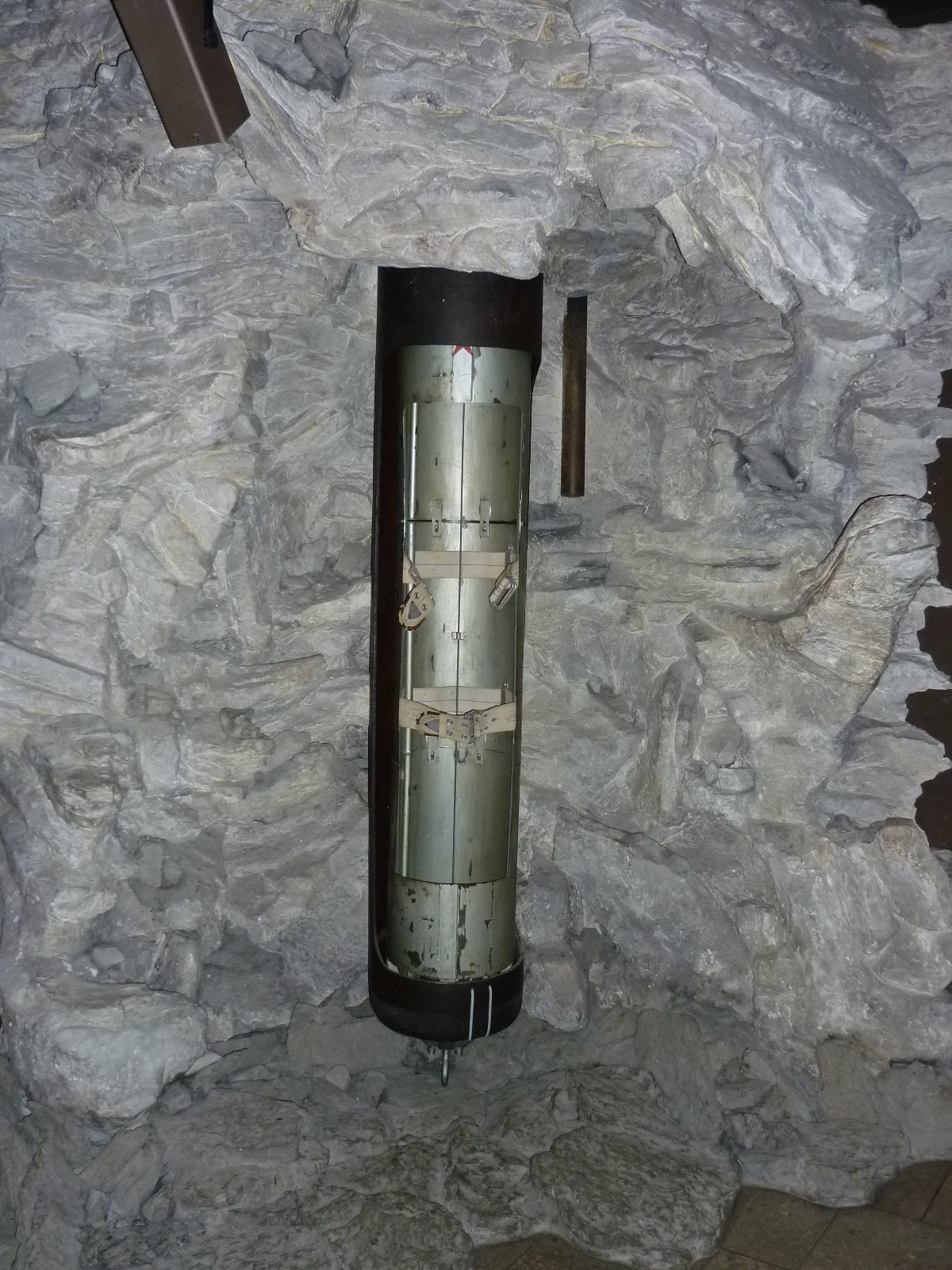 The Dahlbusch Bomb a rescue capsule lowered through a borehole to rescue trapped miners, developed at the Dahlbusch Mine, best known for its usage in the Lengede mining desaster